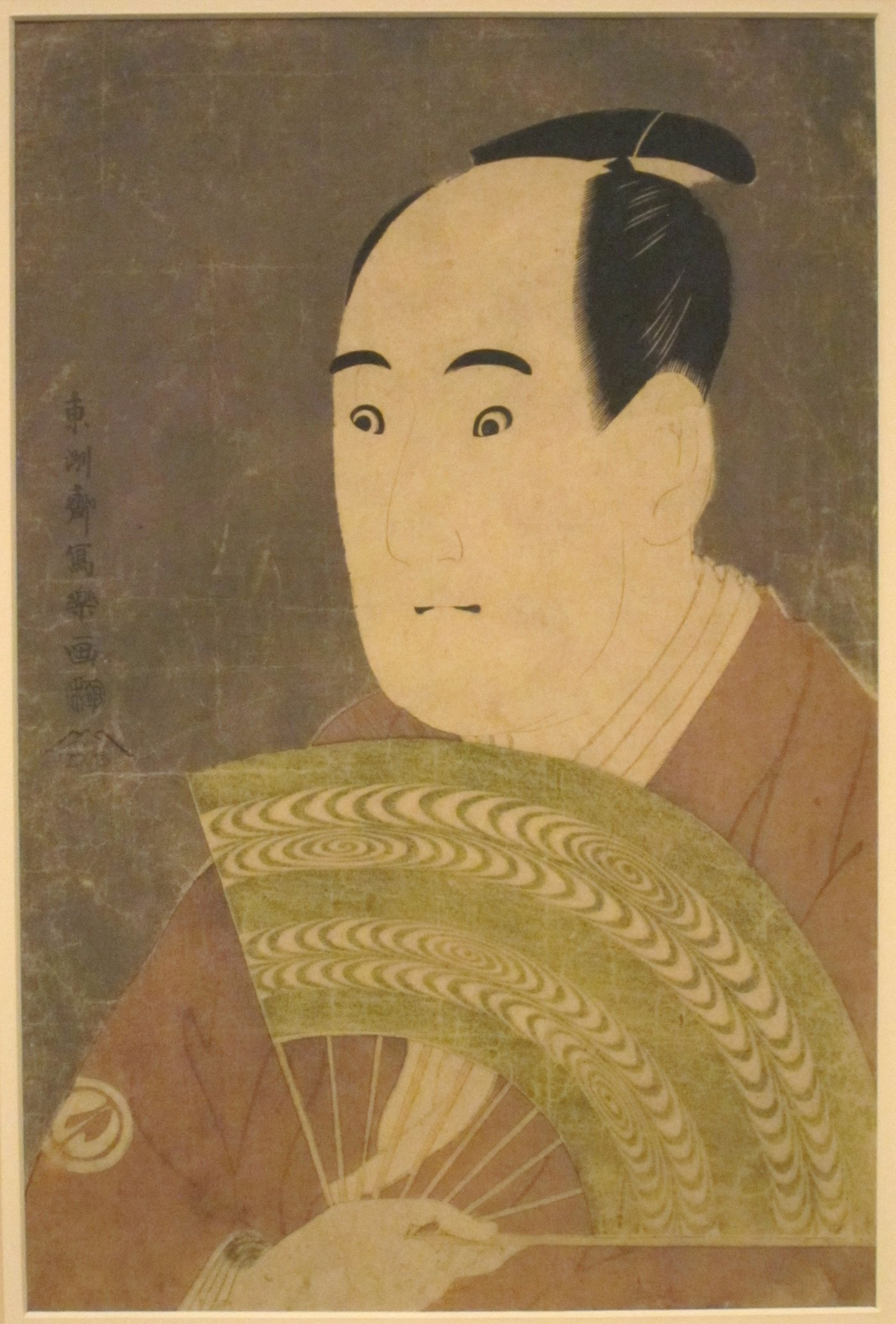 Sawamura Sojurō III as Ogishi Kurando, woodblock print by Sharaku, Honolulu Museum of Art